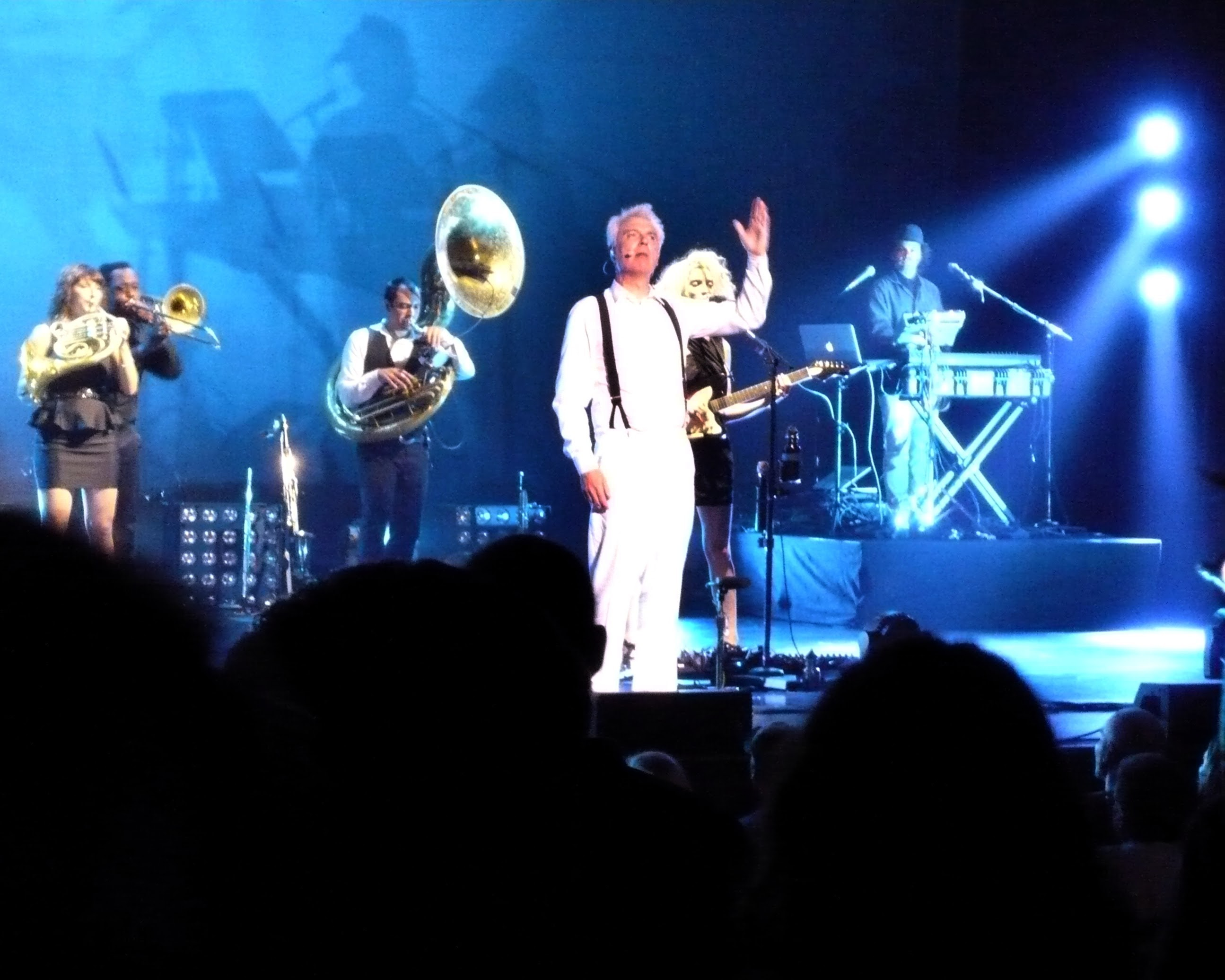 David Byrne and St. Vincent performing at the Taft Theater in Cincinnati, Ohio on July 10, 2013 on the Love This Giant tour.